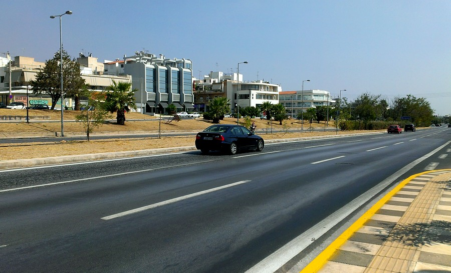 bouliagmenis